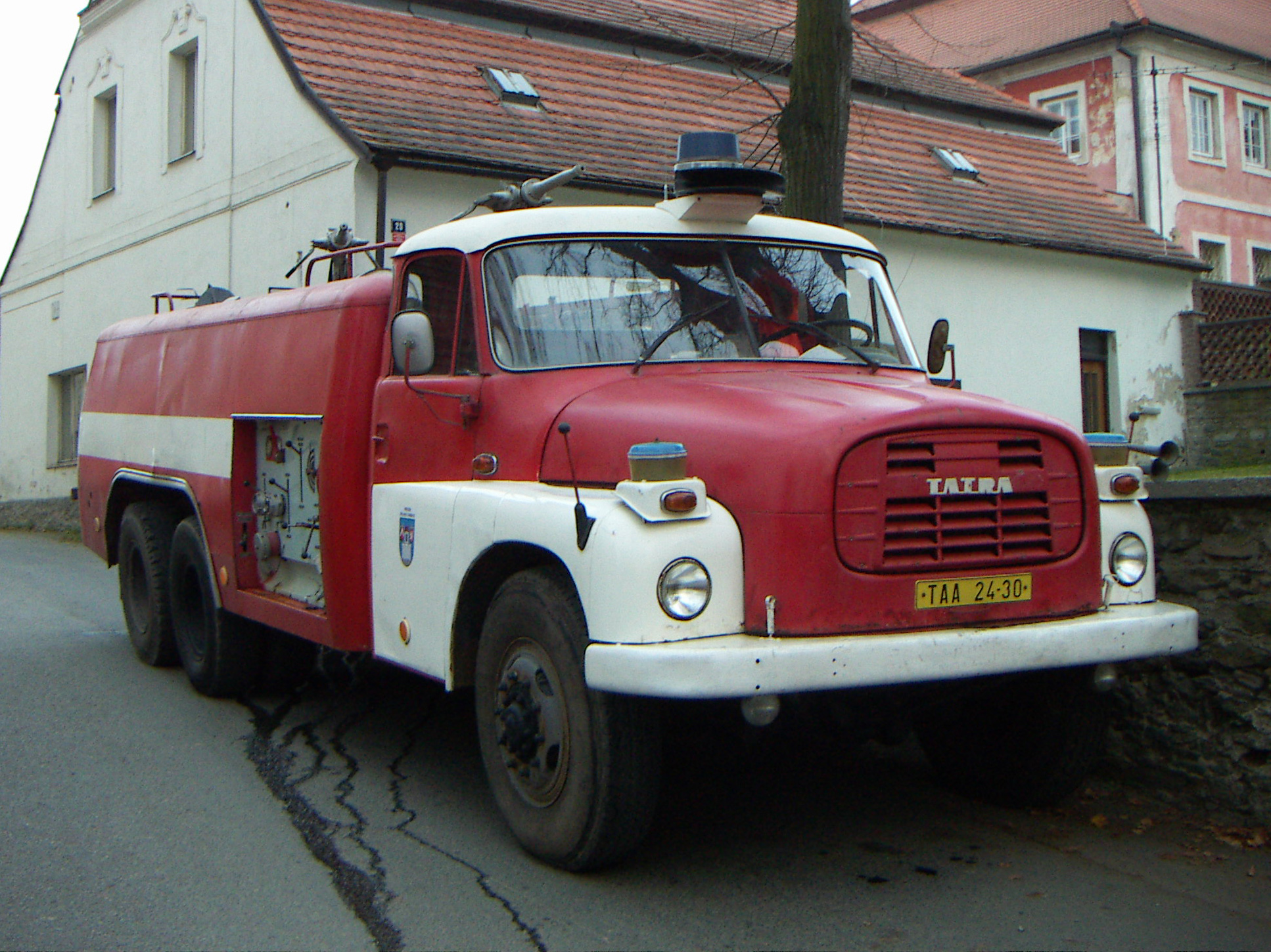 Fire engine Tatra